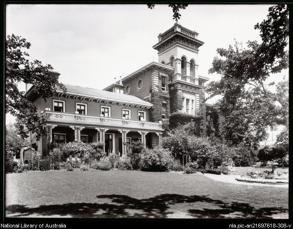 Description: Building of the Methodist Ladies' College, Launceston (now Scotch Oakburn College) taken sometime between 1906 and 1930. Image title:Methodist Ladies' College, Launceston